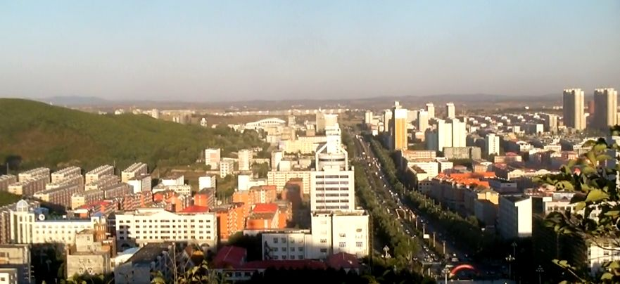 View east at 4:30 pm local time along Xuefu St (学府街) from Tao Hill (桃山) in Qitaihe, China. The southern slope of Xianhudong（仙湖洞）Hill is apparent in the left of this screen capture from a Sanyo Xacti CS-1 video.